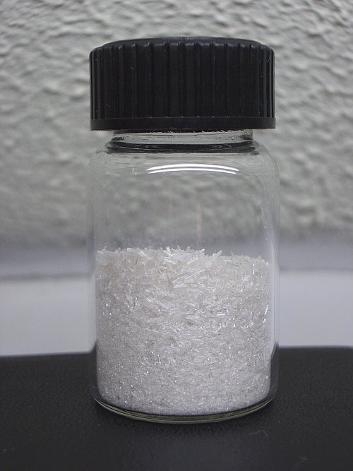 Hydroquinone crystals